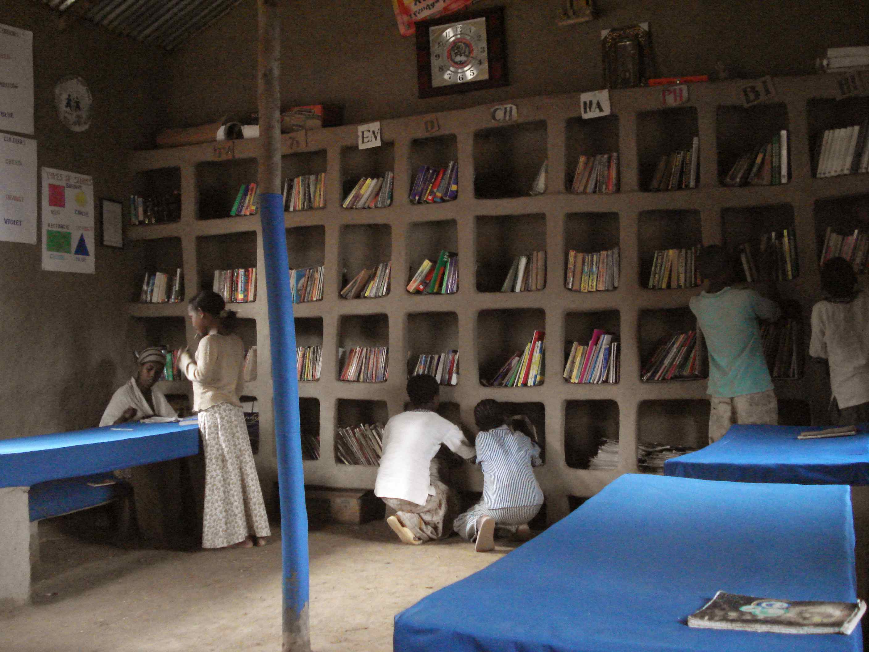 New library built in 2007 of the Awra Amba community, Ethiopia